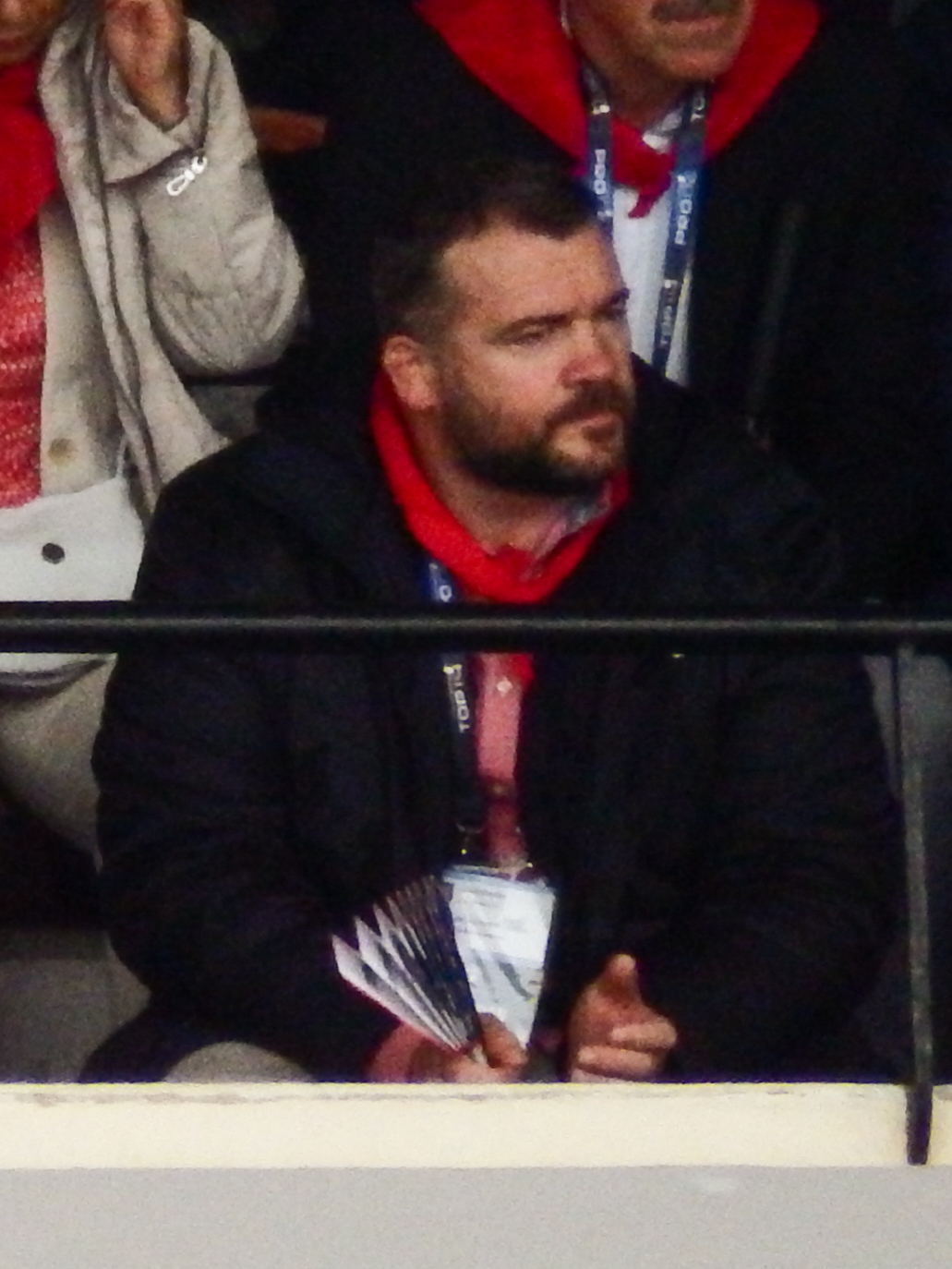 2015–16 Rugby Pro D2 season — 22 May 2016, stade Maurice-Boyau. Match between: US Dax — USAP Perpignan